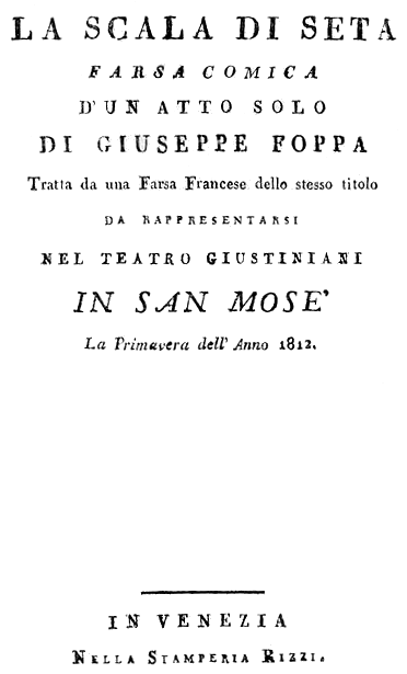 Gioachino Rossini - La scala di seta - titlepage of the libretto - Venice 1812